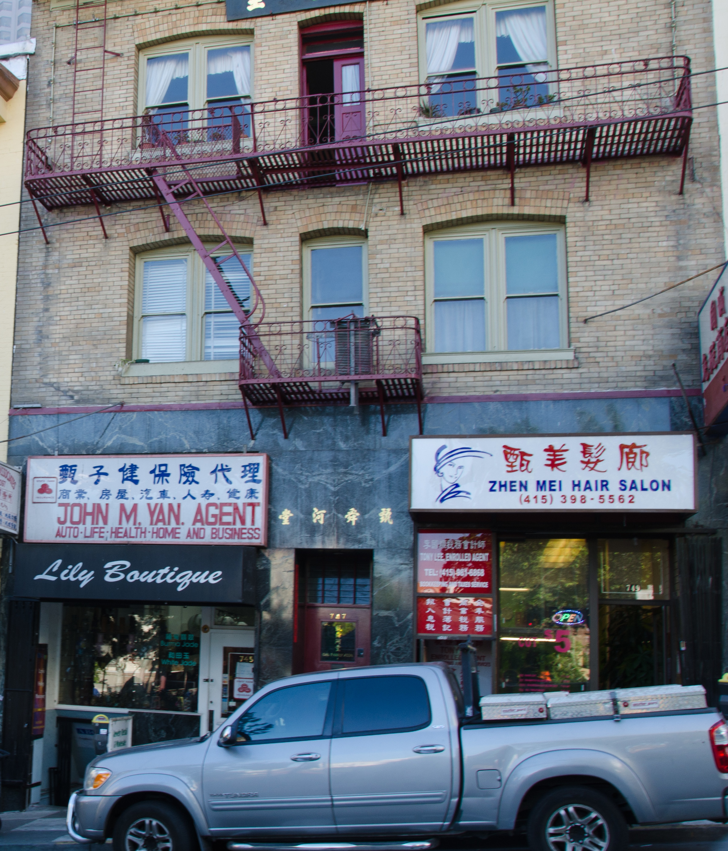 Chinatown Stores